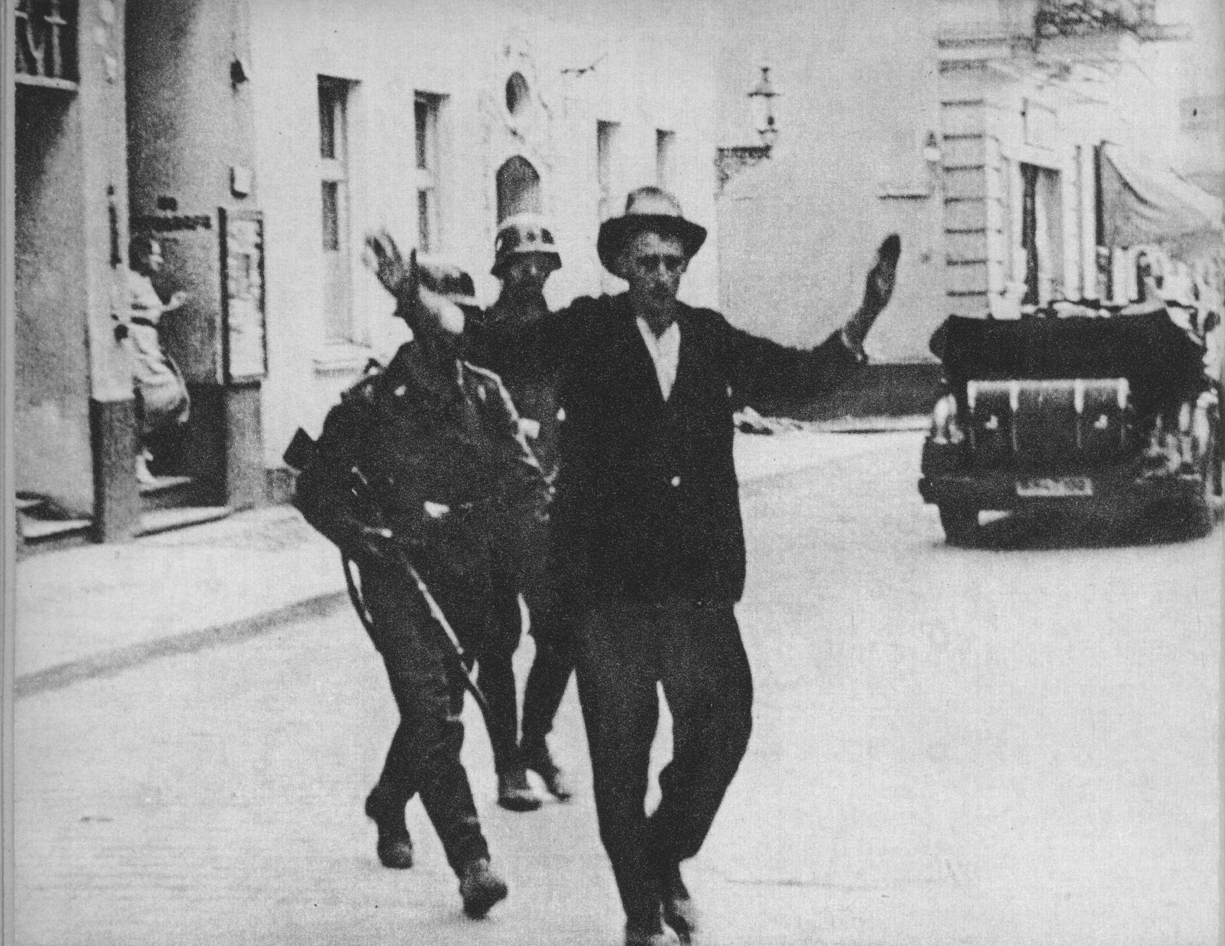 German-occupied Bydgoszcz, first days of September 1939. Arrested Polish man at Jezuicka Street.